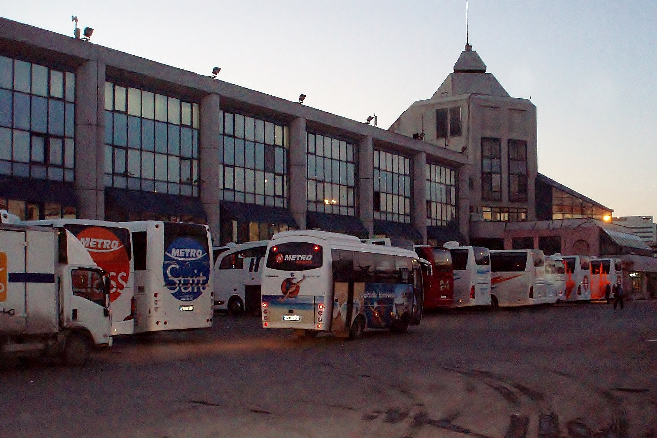 Esenler Bus Terminus (Otogar) in Istanbul, Turkey